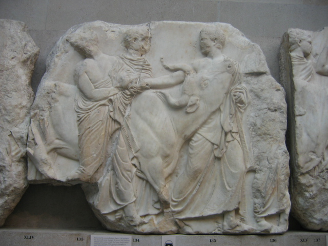 Elgin Marbles, British Museum, London : frise sud, XLIV, 133-134